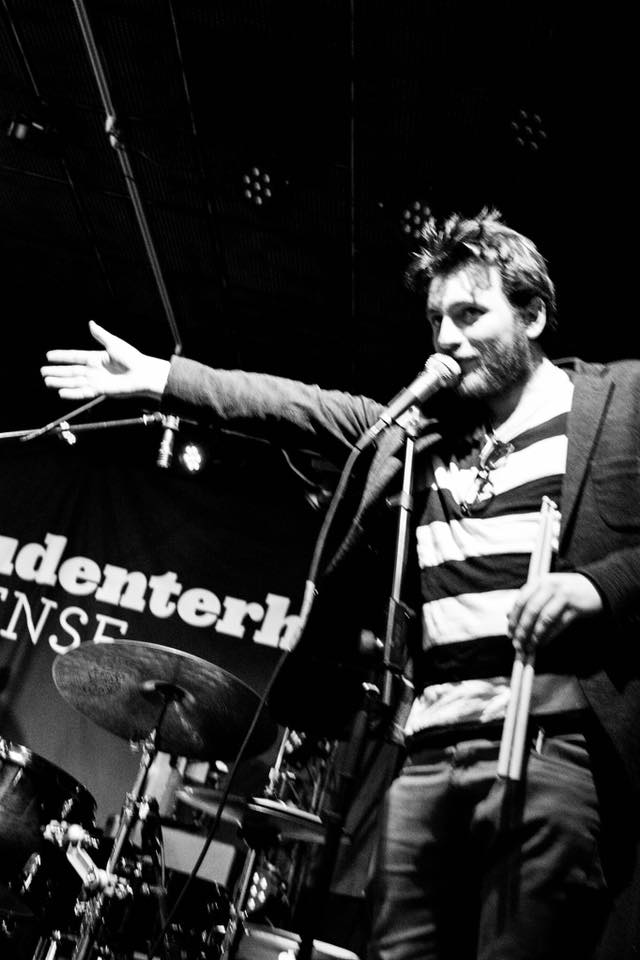 Adam Zagórski at his concert